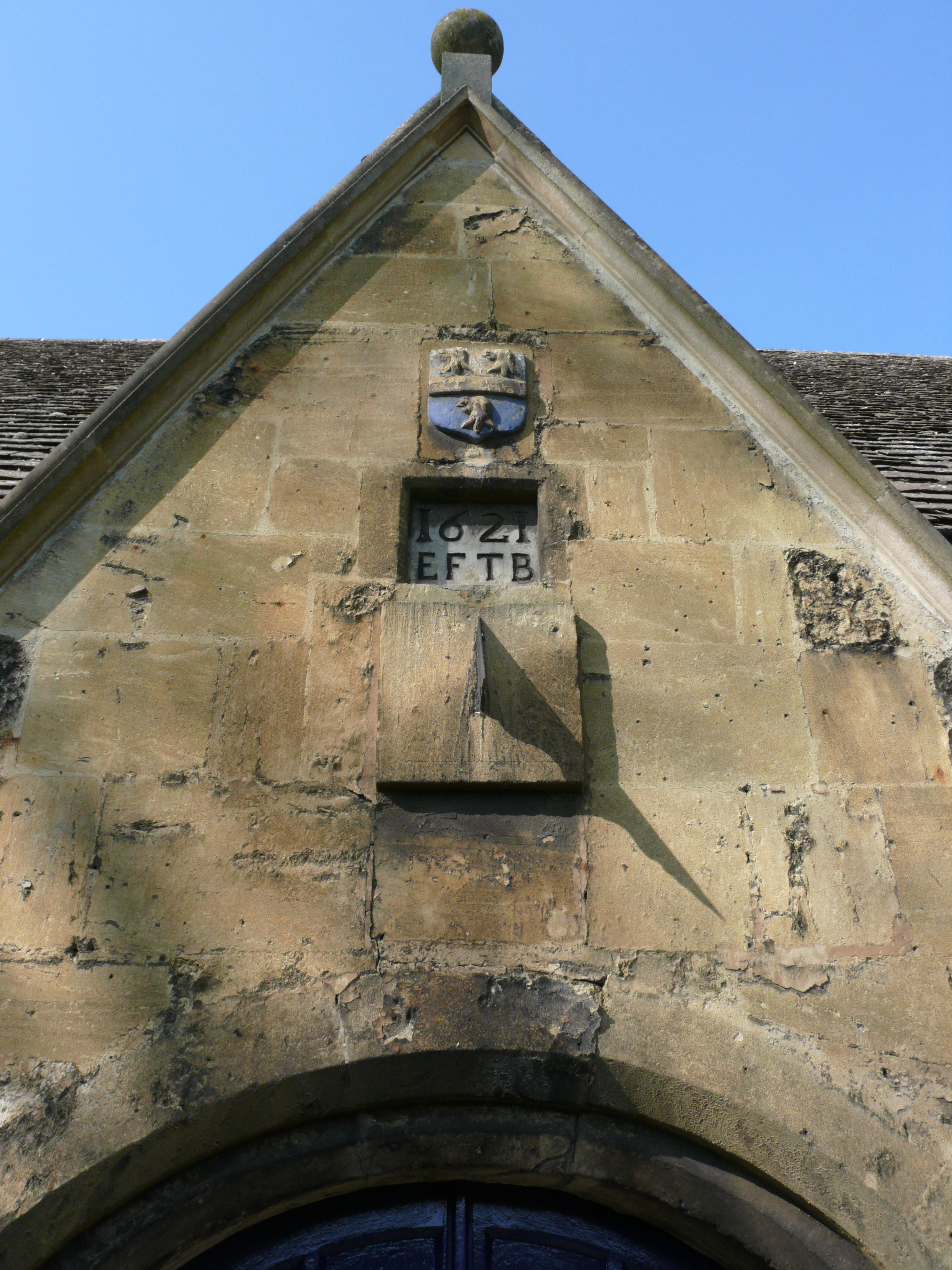 Gable of the south porch of St Thomas the Martyr's Church, Oxford, England. Note the coat of arms of Robert Burton, the year 1621, and the initials EFTB.